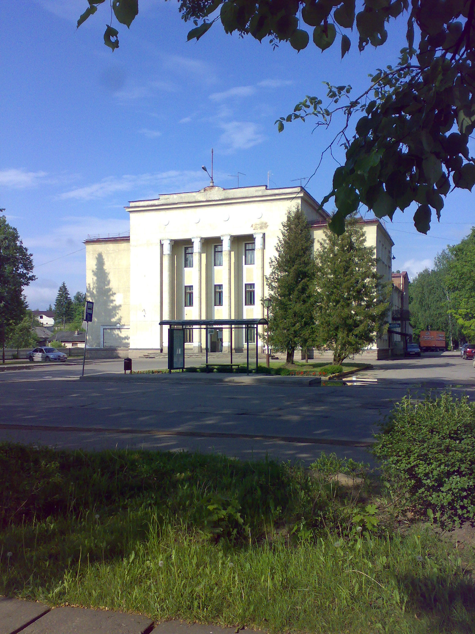 The House of Culture in Krustpils, Jēkabpils (Latvia)